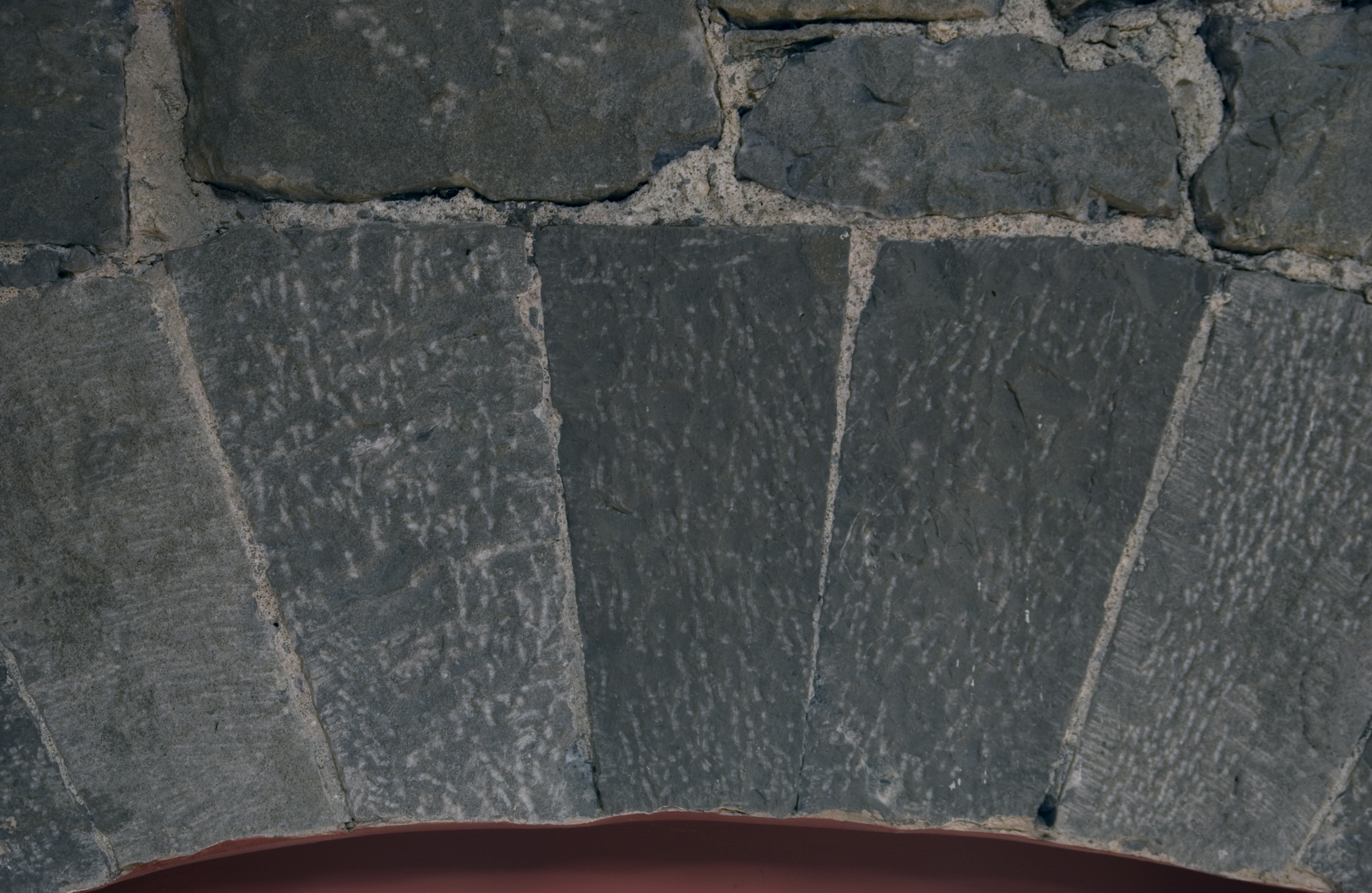 Detail of coursed limestone of window arch from interior of Cregg Mill, Galway, Ireland